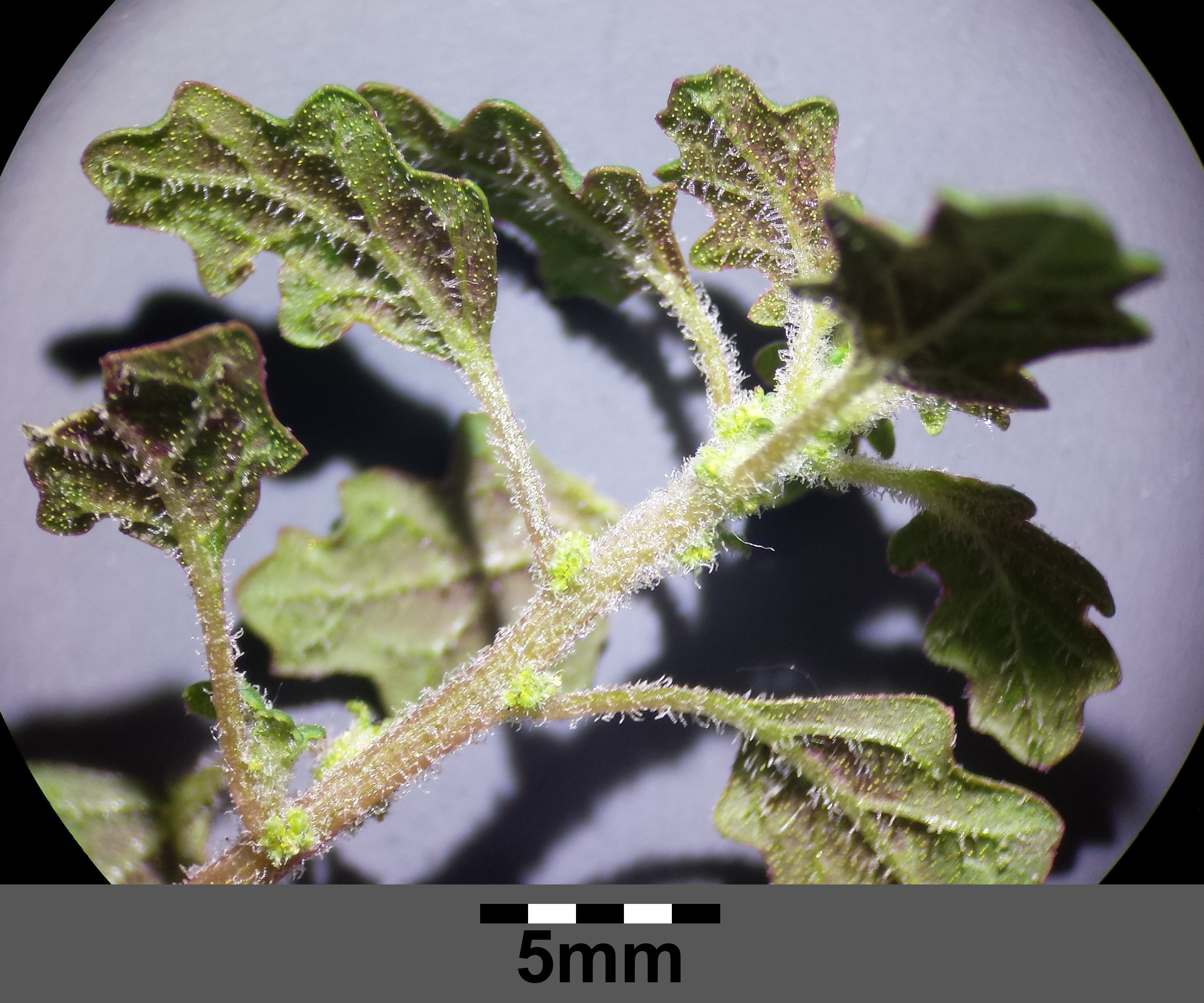 Habitus Taxonym: Dysphania pumilio ss Fischer et al. EfÖLS 2008 ISBN 978-3-85474-187-9 Location: Schwaigergasse, Vienna-Floridsdorf - ca. 160 m a.s.l. Habitat: gap in surface